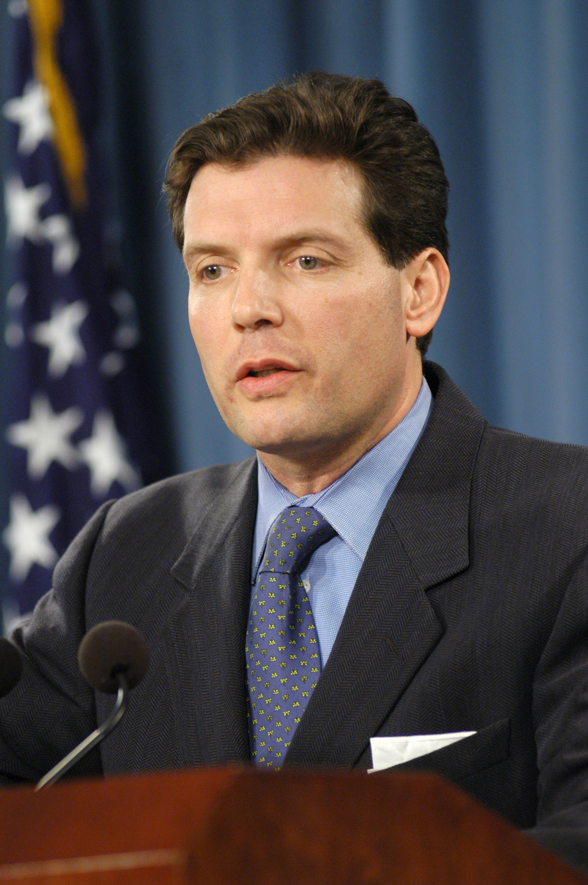 Principal Deputy Assistant Secretary of Defense for Public Affairs Lawrence Di Rita conducts a Pentagon press briefing to update reporters on March 3, 2005.